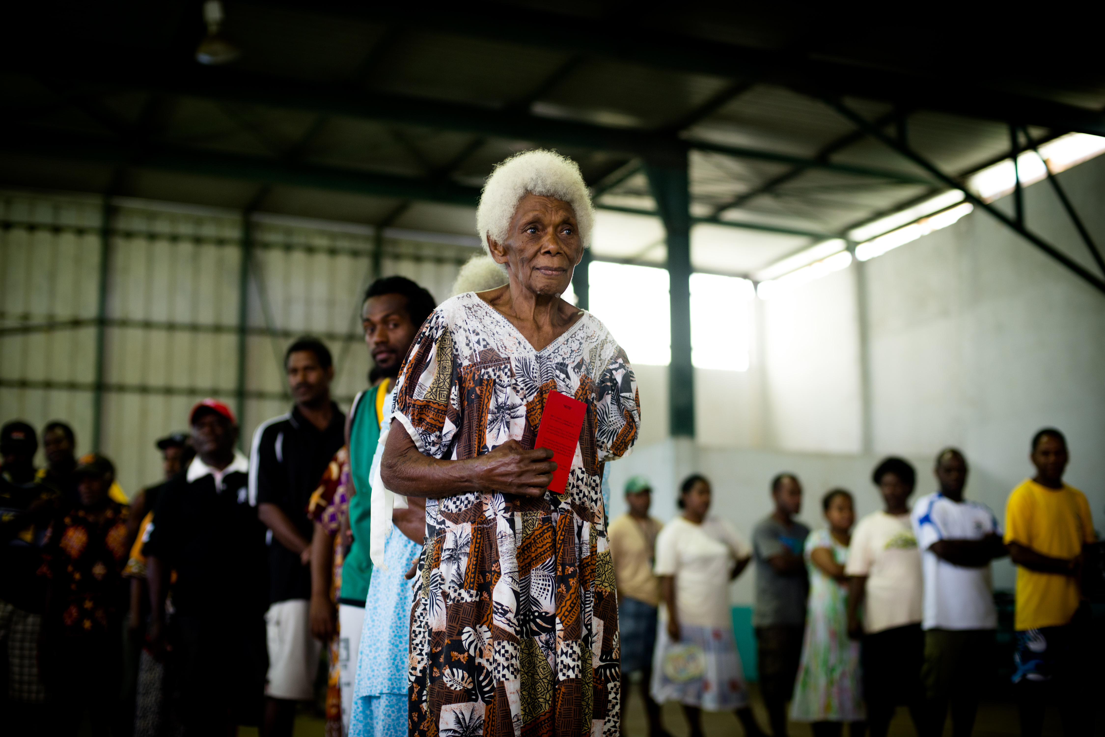 Some shots taken on polling day in Vanuatu's 2012 general election.